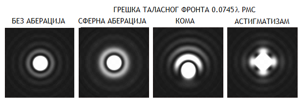 ДЕЈСТВО АБЕРАЦИЈА НА ФИЗИЧКУ СЛИКУ ТАЧКЕ